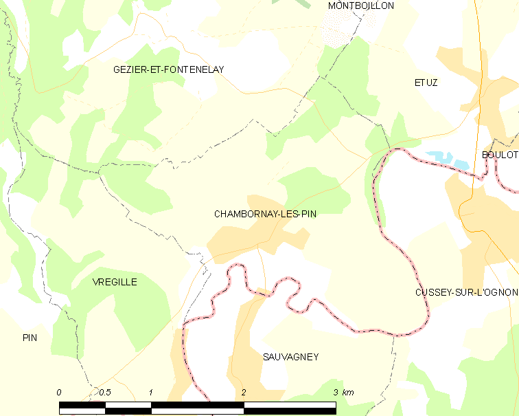 Map of French municipality